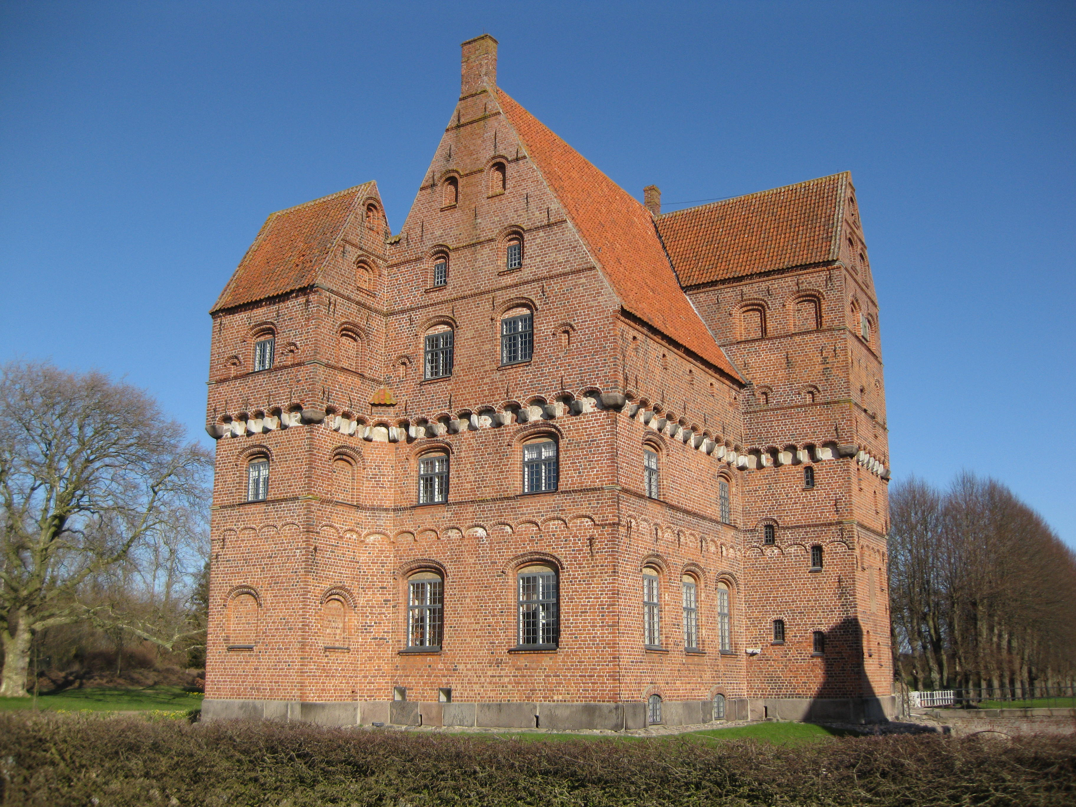 The castle "Borreby Slot" nearby the town Skælskør. The place is located in West Zealand, Denmark.